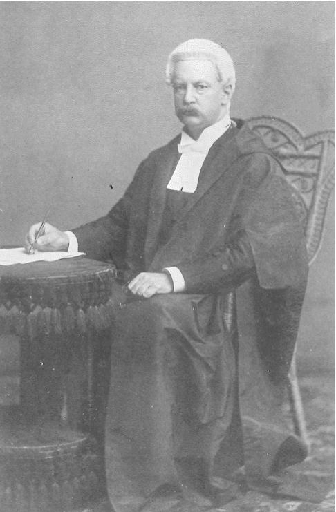 Picture of Sir William Meigh Goodman (1847-1928) as Chief Justice of Hong Kong